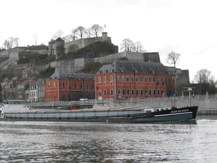 Namur (Belgium), the Meuse, the Vauban citadel and the walloon parliament. Barge is the Juan de Nova, L 80m, W 9m, T 1320